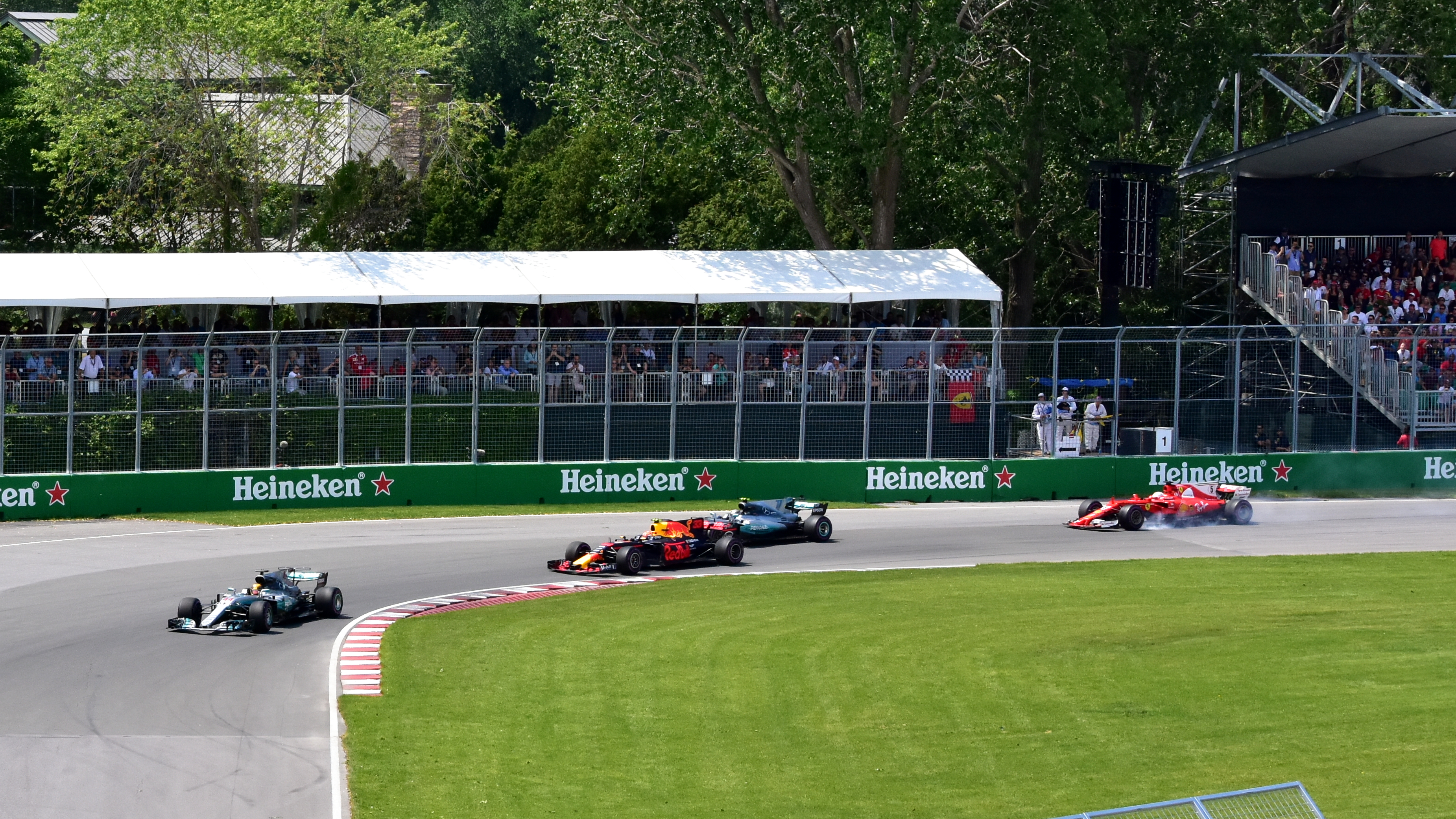 Restart after the safety car